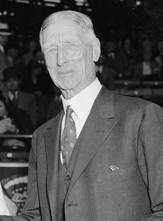 Connie Mack, Phila A's manager, Opening Day, April 18, 1938, Griffith Stadium, Washington